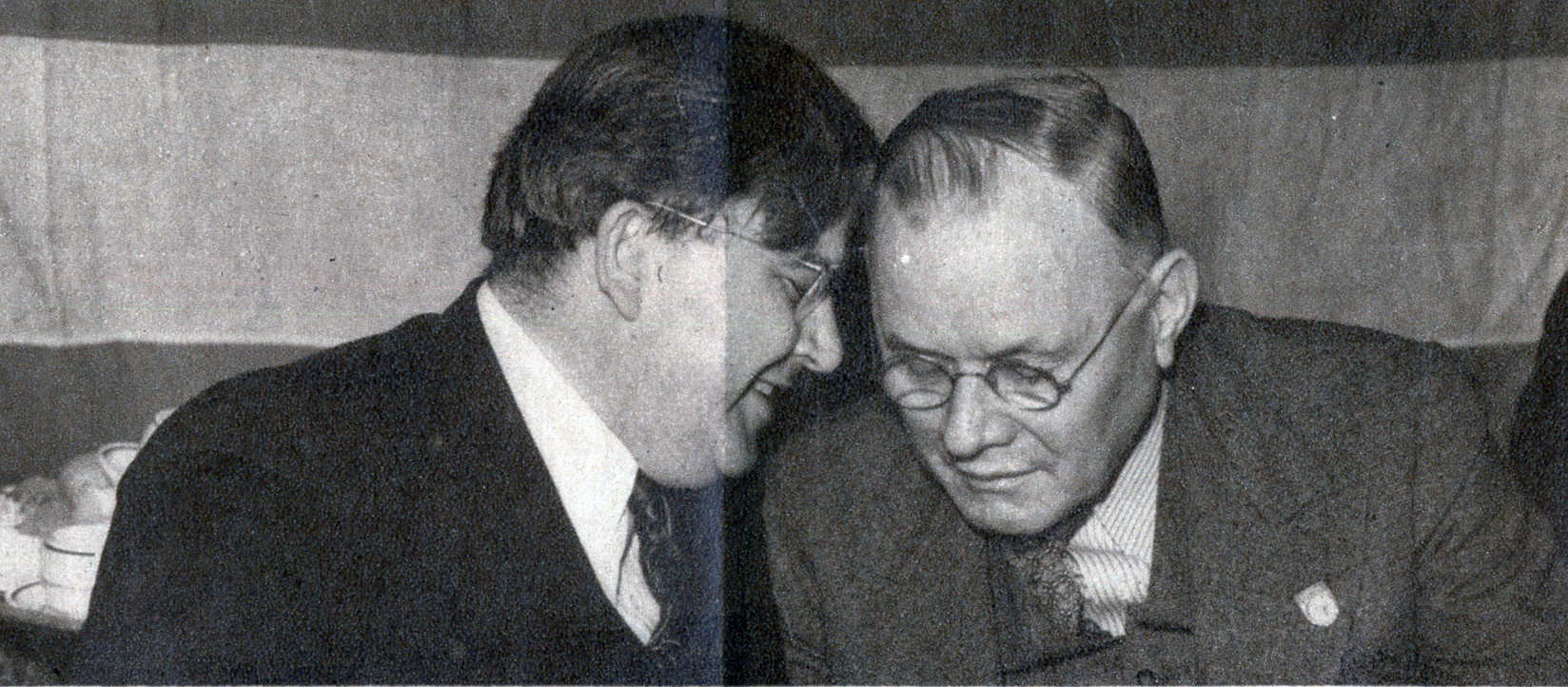 ISFL President Reuben G. Soderstrom and AFL President William Green